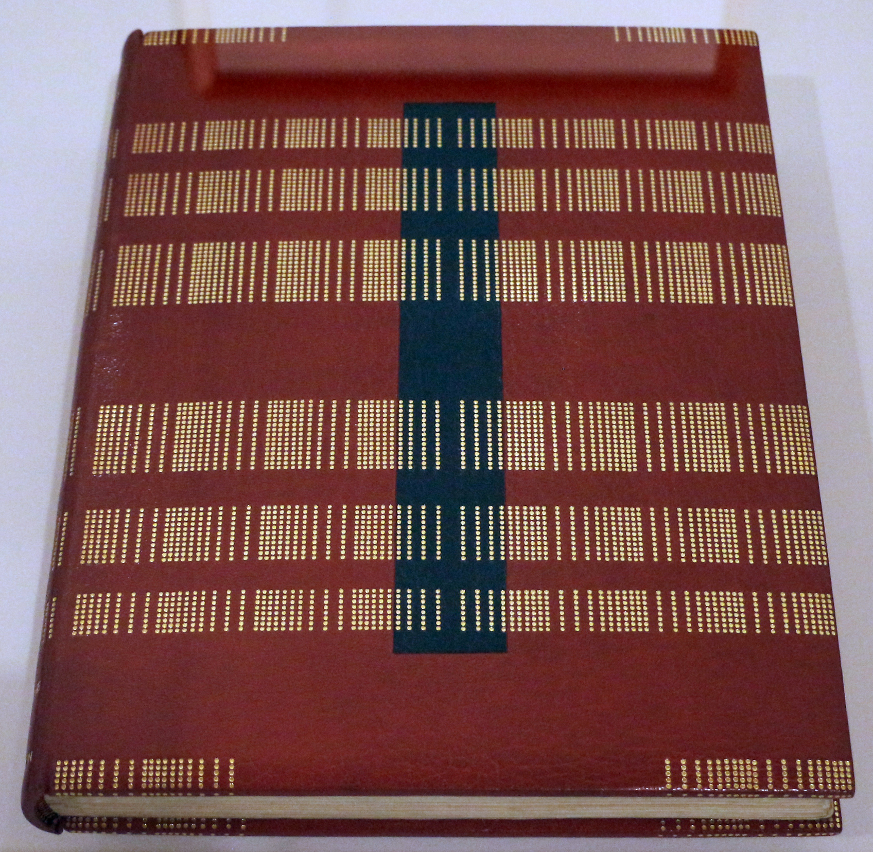 Calouste Gulbenkian Museum